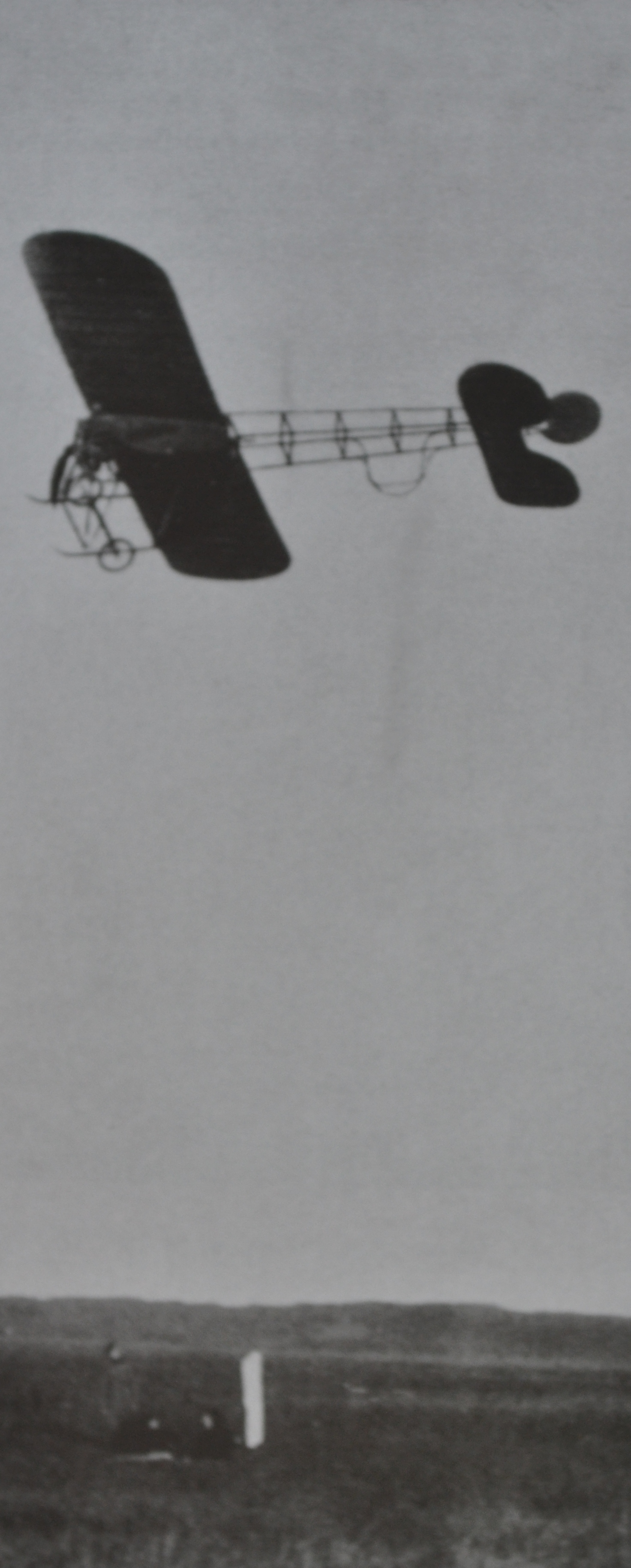 Italian pioneer monoplane Caproni Ca.12 broke the airspeed world record on March 20, 1912.